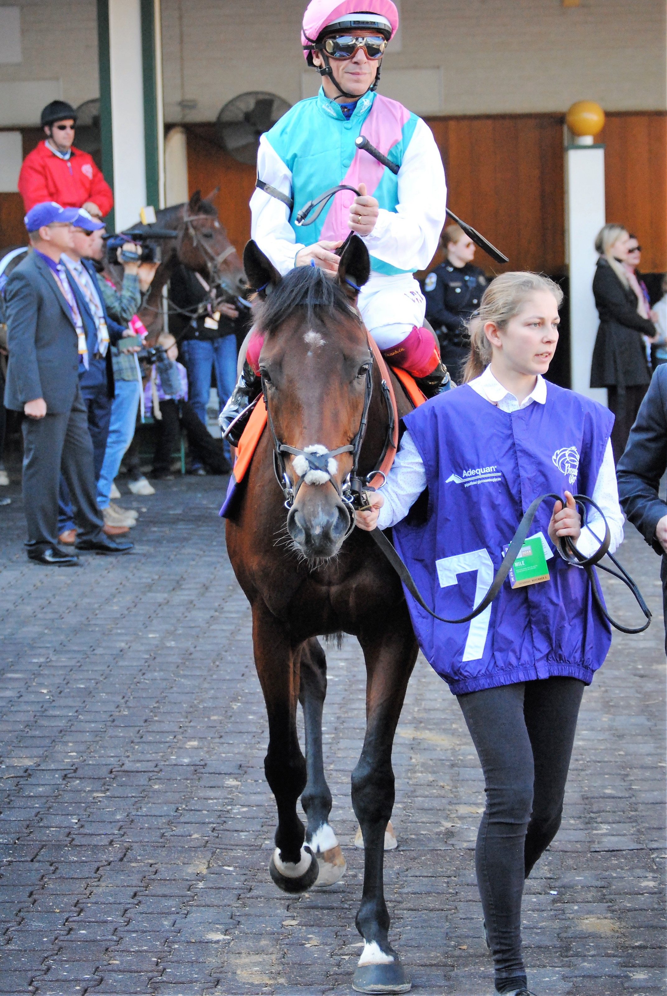 Expert Eye and Frankie Dettori at the 2018 Breeders' Cup